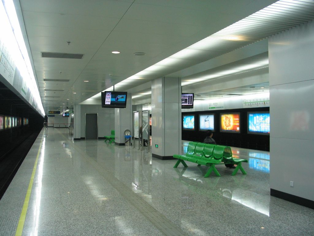 淞虹路站-2號線月台 Line 2 Platform of Songhong Road Station